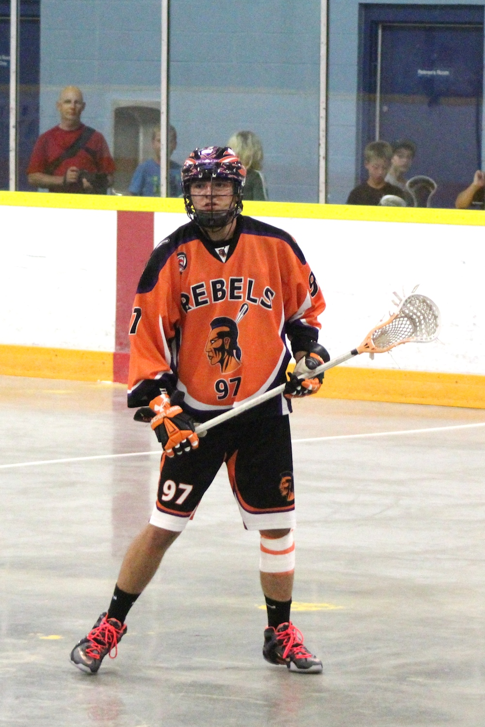 This photo was taken by Devan Mighton during the 2015 OJBLL season.